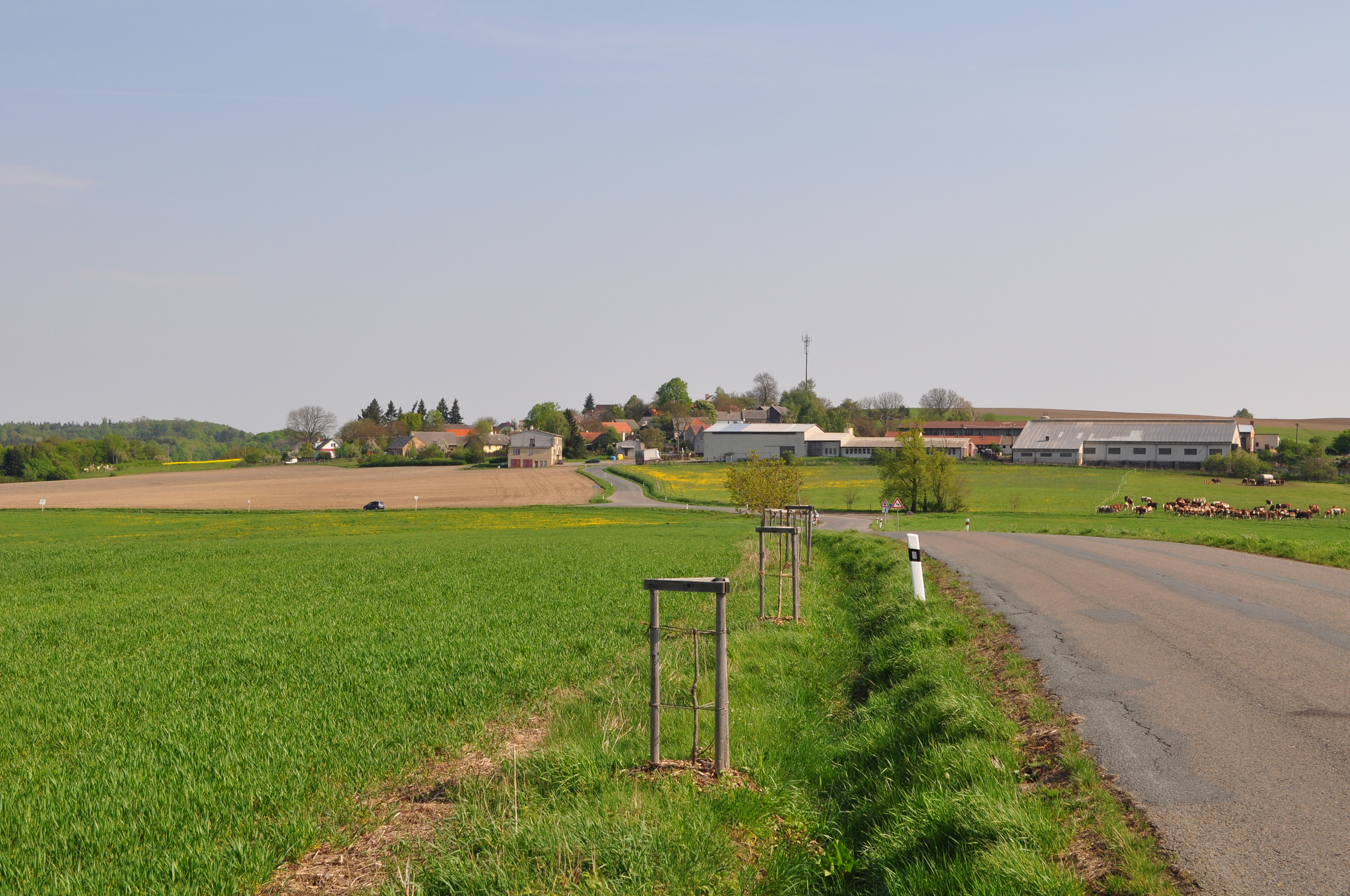 Kakejcov, panorama